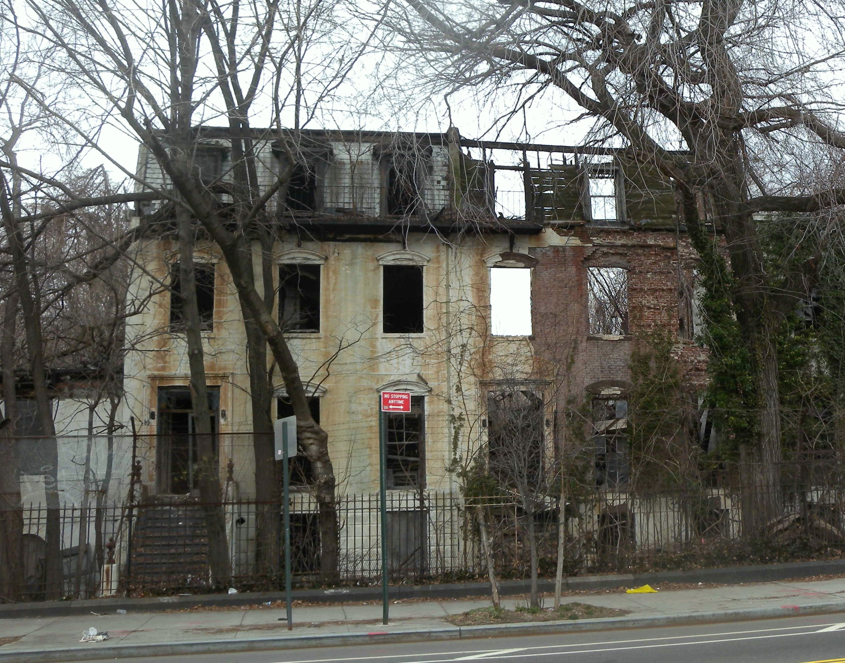 Looking north across Flushing Avenue at one of the roofless houses on a cloudy afternoon. Buildings H and C.